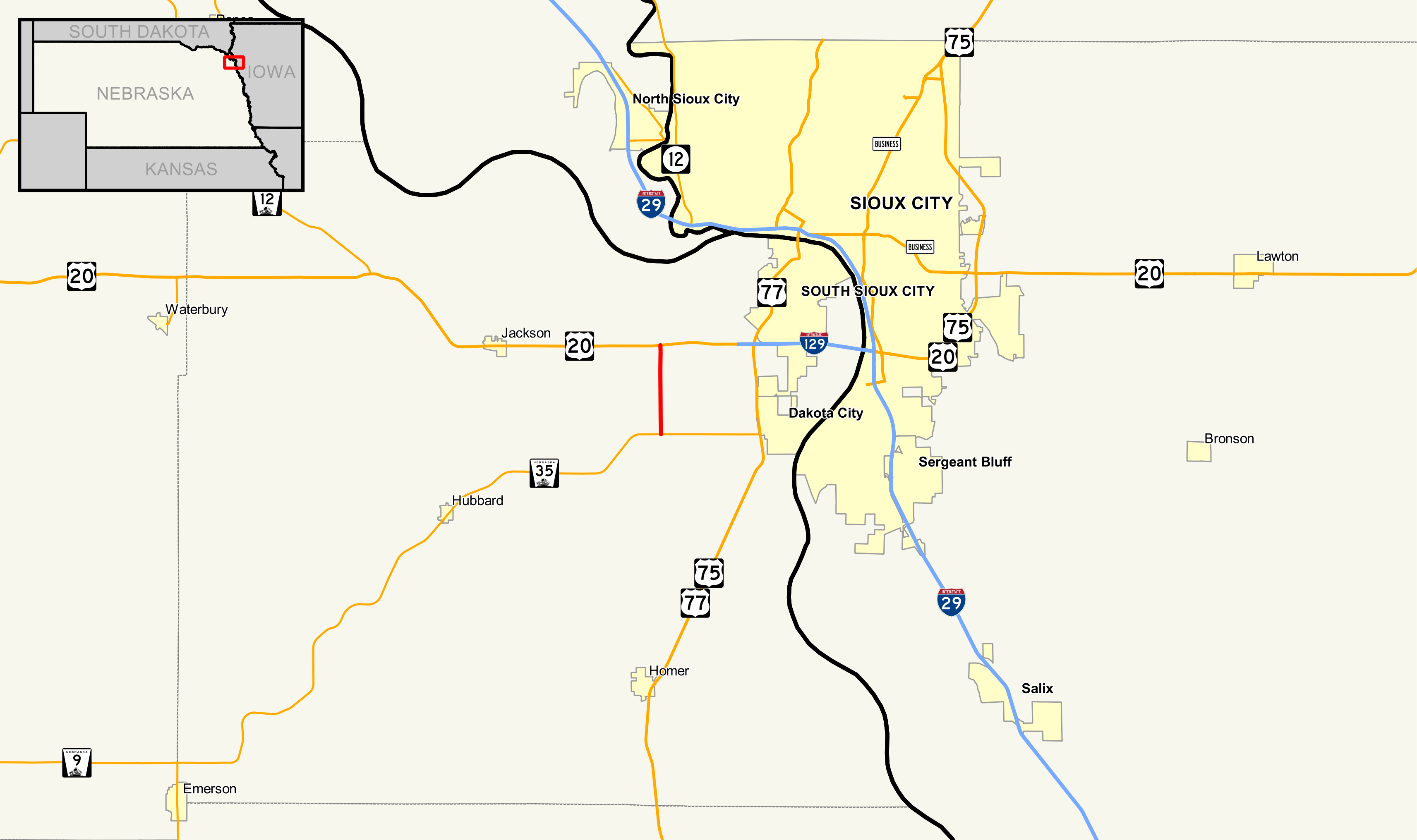 Map of Nebraska Highway 110 Data Sources: Nebraska Highways - - Dec 2016 Nebraska County Boundaries - - Dec 2016 Nebraska City Boundaries - - Dec 2016 This PNG graphic was created with QGIS